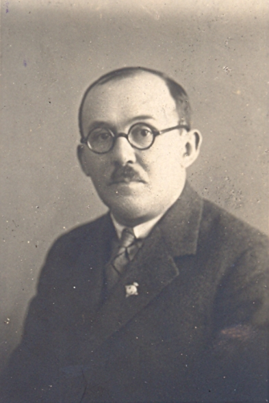 Yugoslavian / Serbian composer Kosta Manojlović (1890-1949)